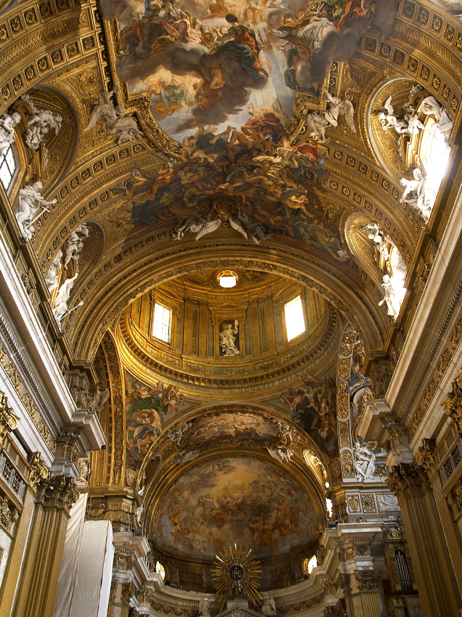 Church of the Gesu, Rome